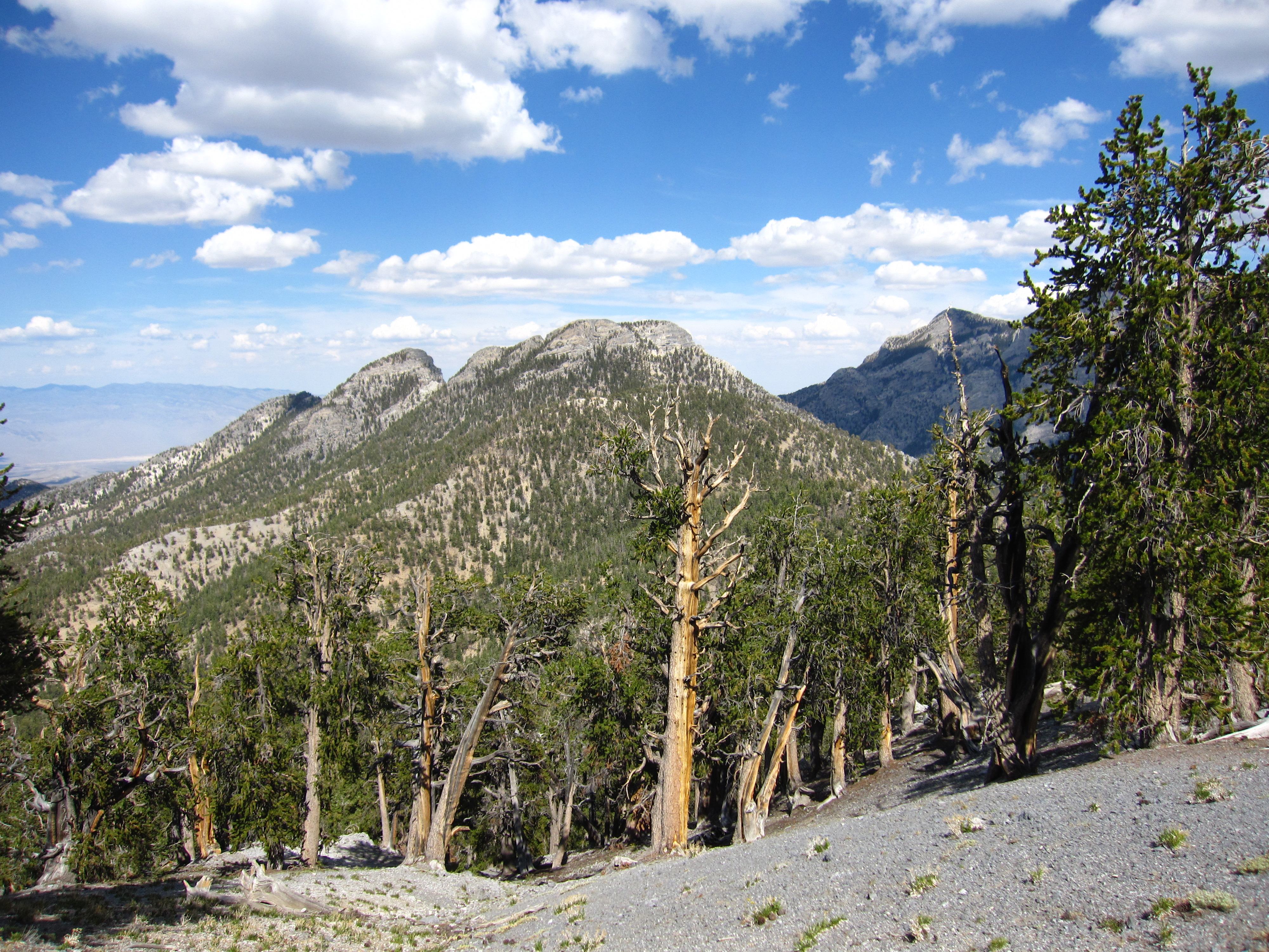 Great Basin Bristlecone Pine Pinus longaeva, Spring Mountains, Nevada